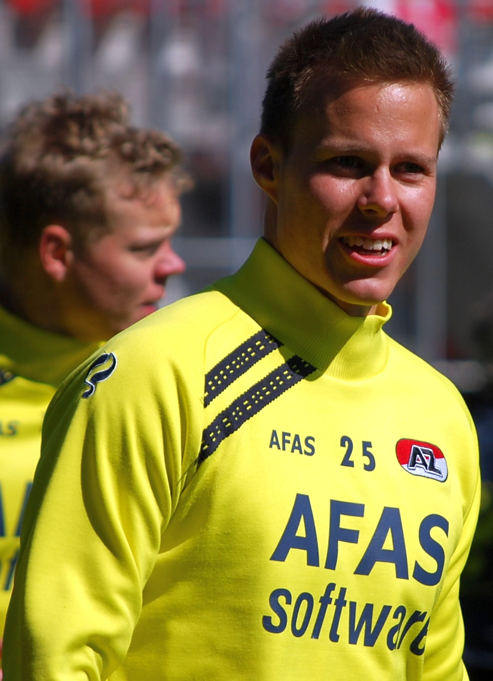 Finnish football player Niklas Moisander